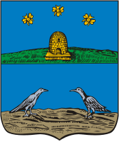 Kirsanov (Tambov oblast), coat of arms (1781)